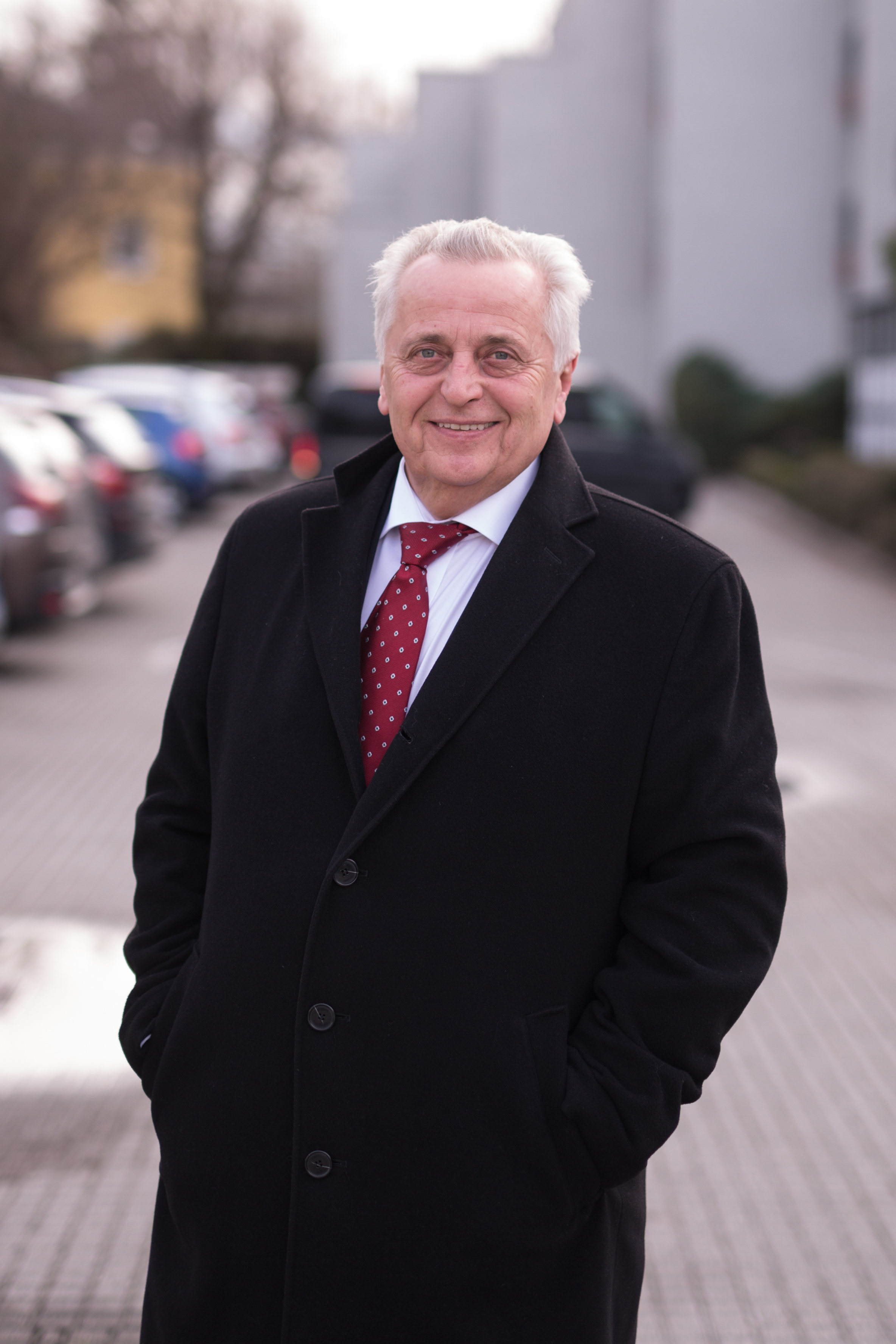 Rudolf Hundstorfer